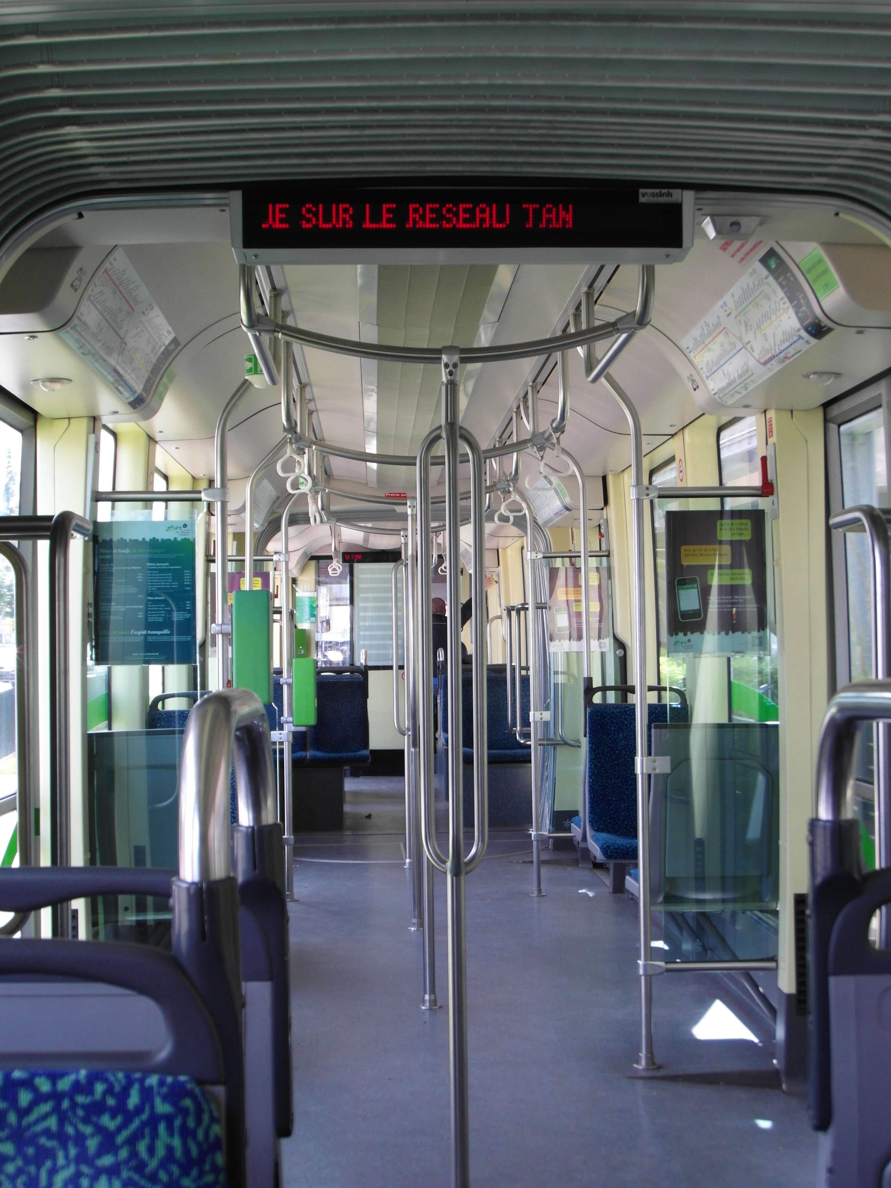 Nantes - Tramway - Details - Adtranz Incentro